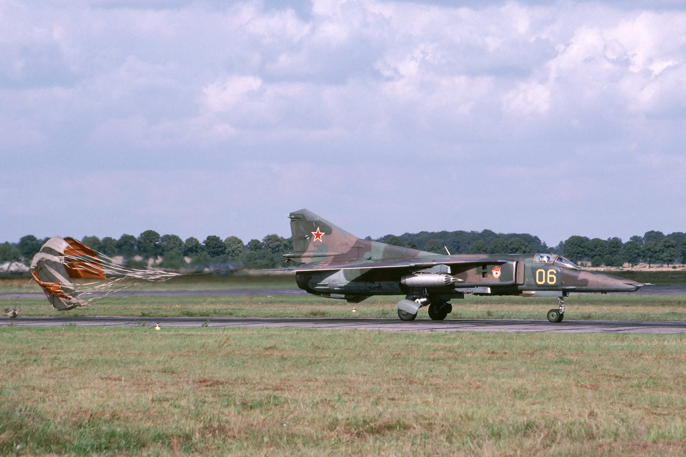 A Flogger-J has just left the runway at Lärz, still trailing its chute. 28 August 1991.